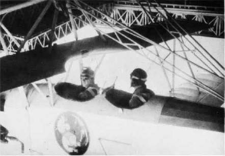 A U.S. Navy consolidated N2Y-1 in the hangar of the airship USS Macon (ZRS-5) in 1933/34. The USN equipped six N2Y-1s with hooks to train pilots for the Curtiss F9C Sparrowhawk fighters and also used the N2Y-1 as liaison planes between the ground and the airship.